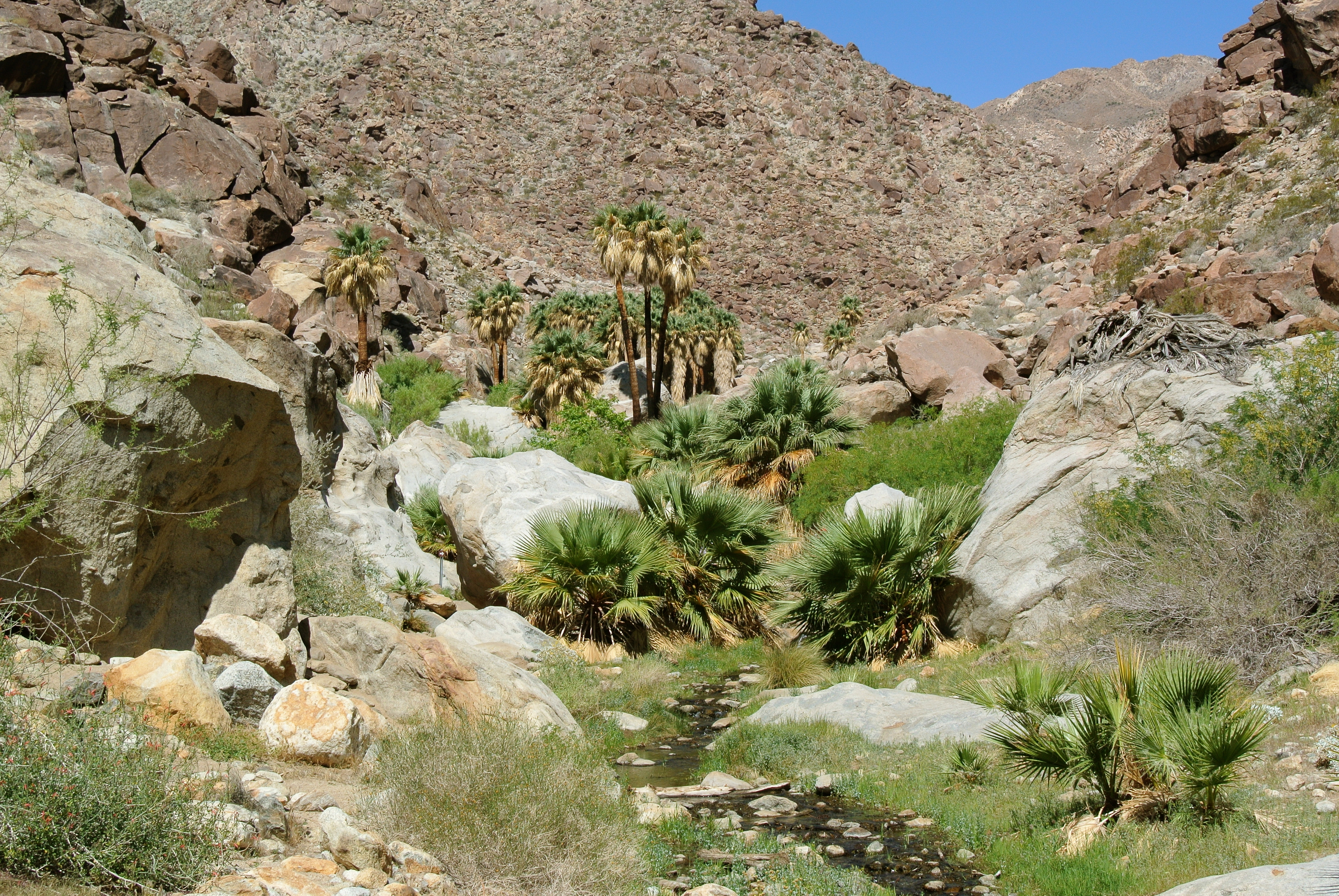 California fan palm (Washingtonia filifera) trees and fronds in Anza-Borrego Desert State Park (Palm Canyon)